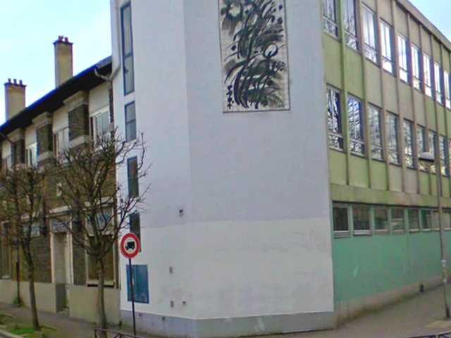 Collège Didier Daurat (junior high school) in Le Bourget The is the angle between the oldest and newest part of the buildings, to the left and right respectively